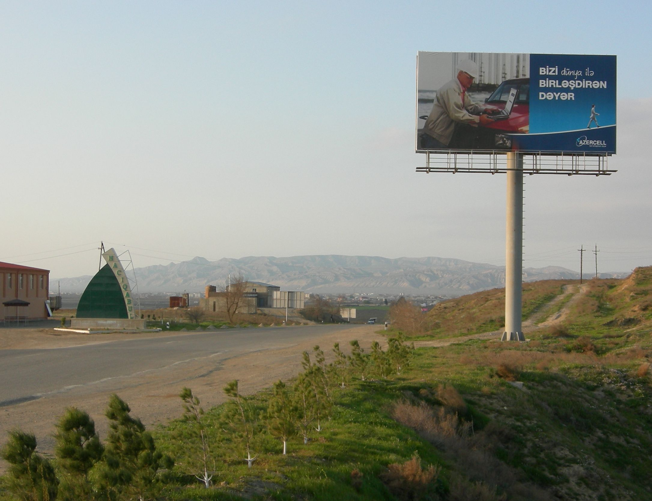 Road sign at the entry to Hacıqabul rayon from Şirvan city, Azerbaijan